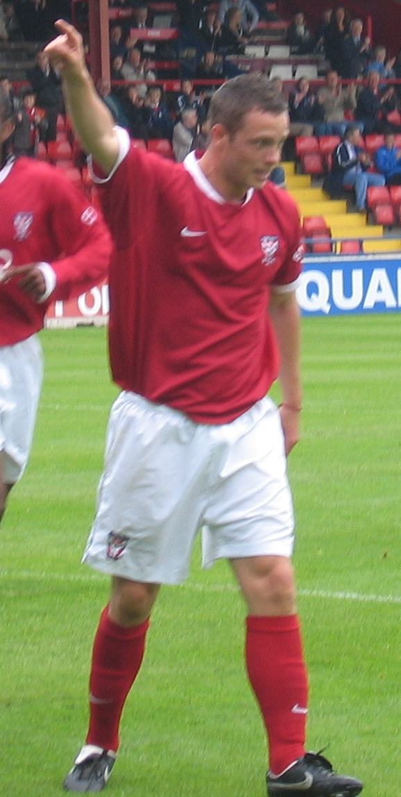 Photo of York City Football club player, taken by myself.